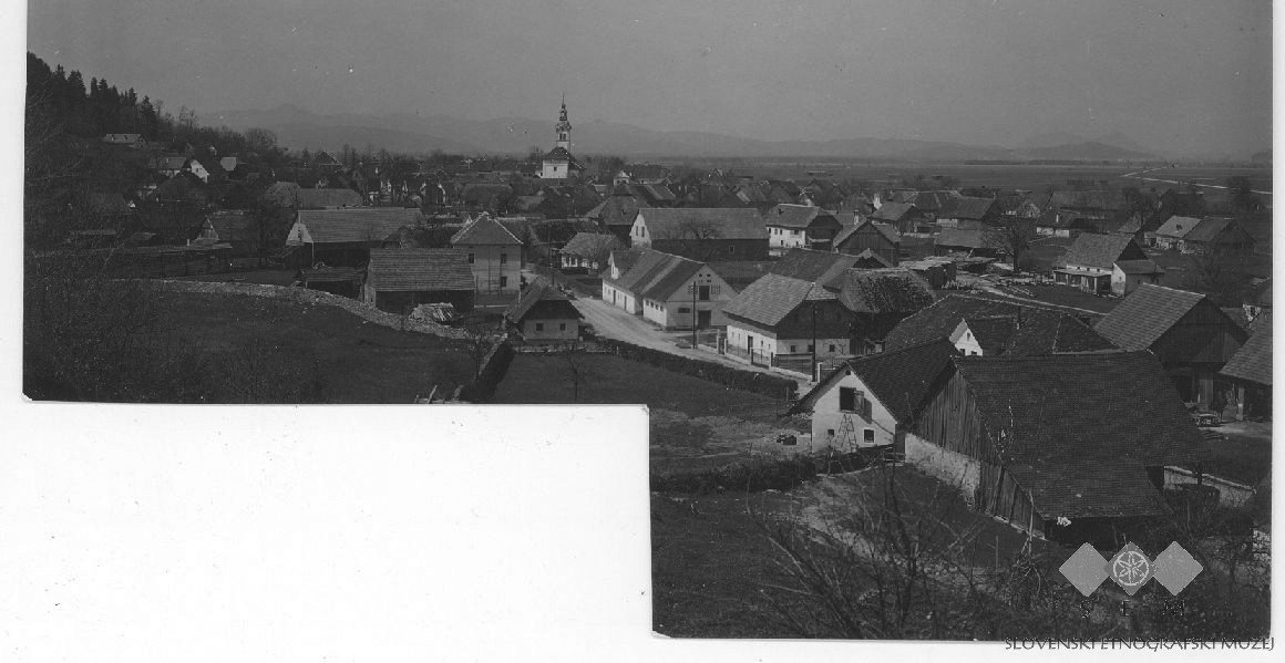 Postcard of Ljubljana, Studenec